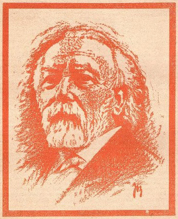 Eugeen Van Oye. Front page of the Flemish magazine Pallieter (1922-1928). All front pages were designed and illustrated by Jos De Swerts (1890-1939).